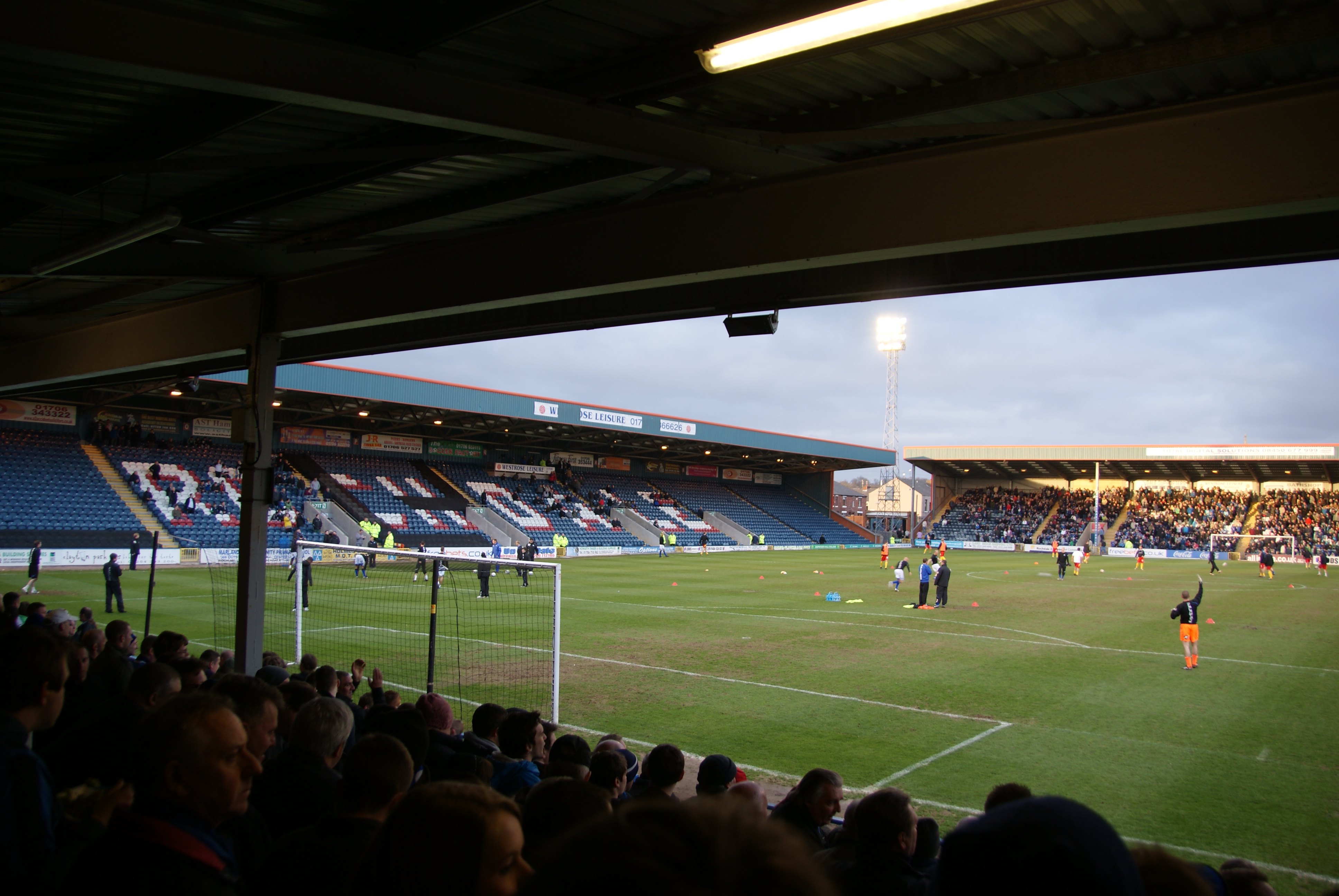 Inside Spotland football ground The home of Rochdale AFC.